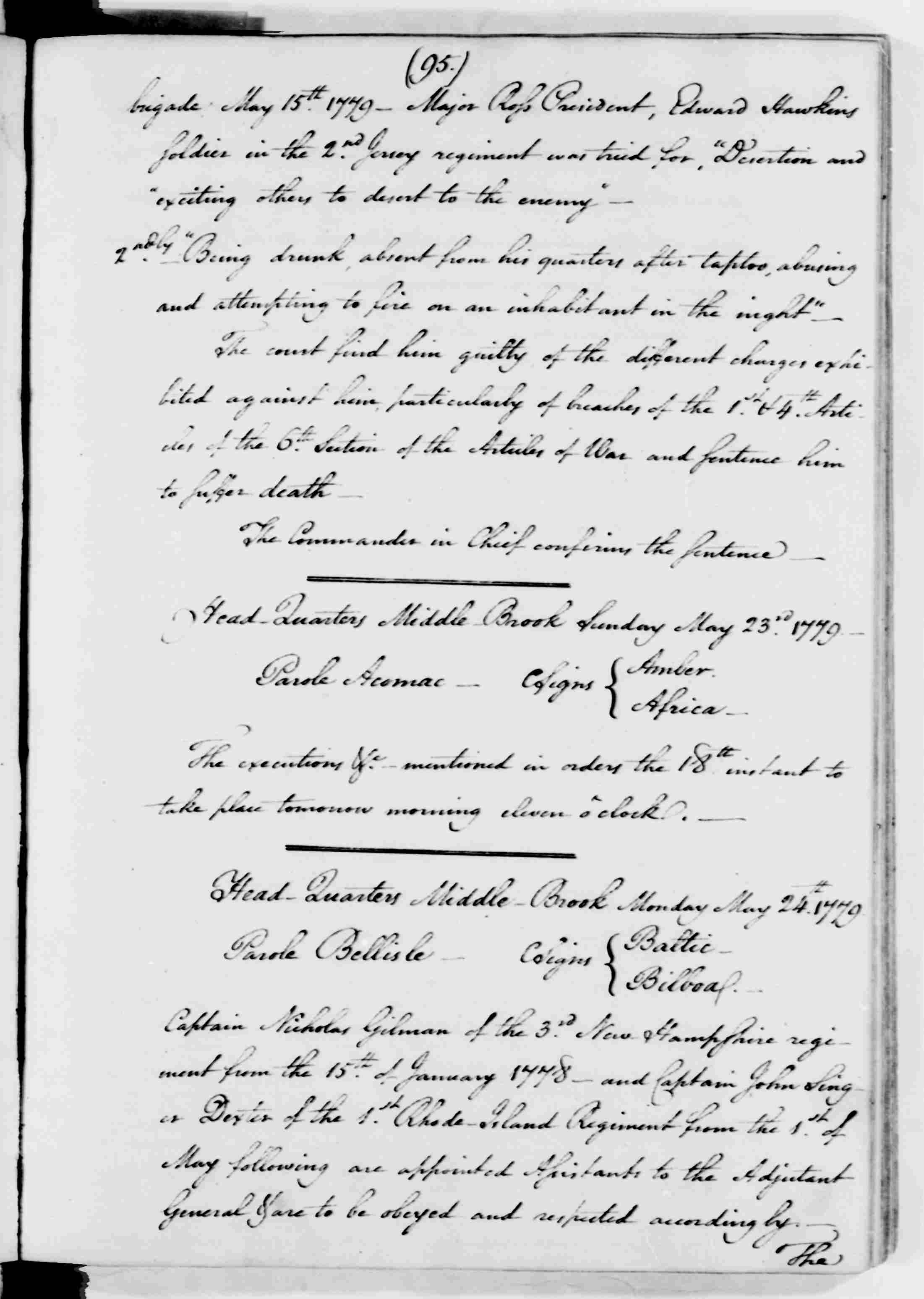 General orders of George Washington, Continental Army; three sections corresponding to three days: the first section is the end of a trial verdict and sentence; the second section names a date for execution of the sentence; the third section is the beginning of an order naming Captain Nicholas Gilman of the Third New Hampshire Regiment and Captain John Singer Dexter of the First Rhode Island Regiment as assistants to the adjutant general. George Washington Papers, Series 3g, Varick Transcripts